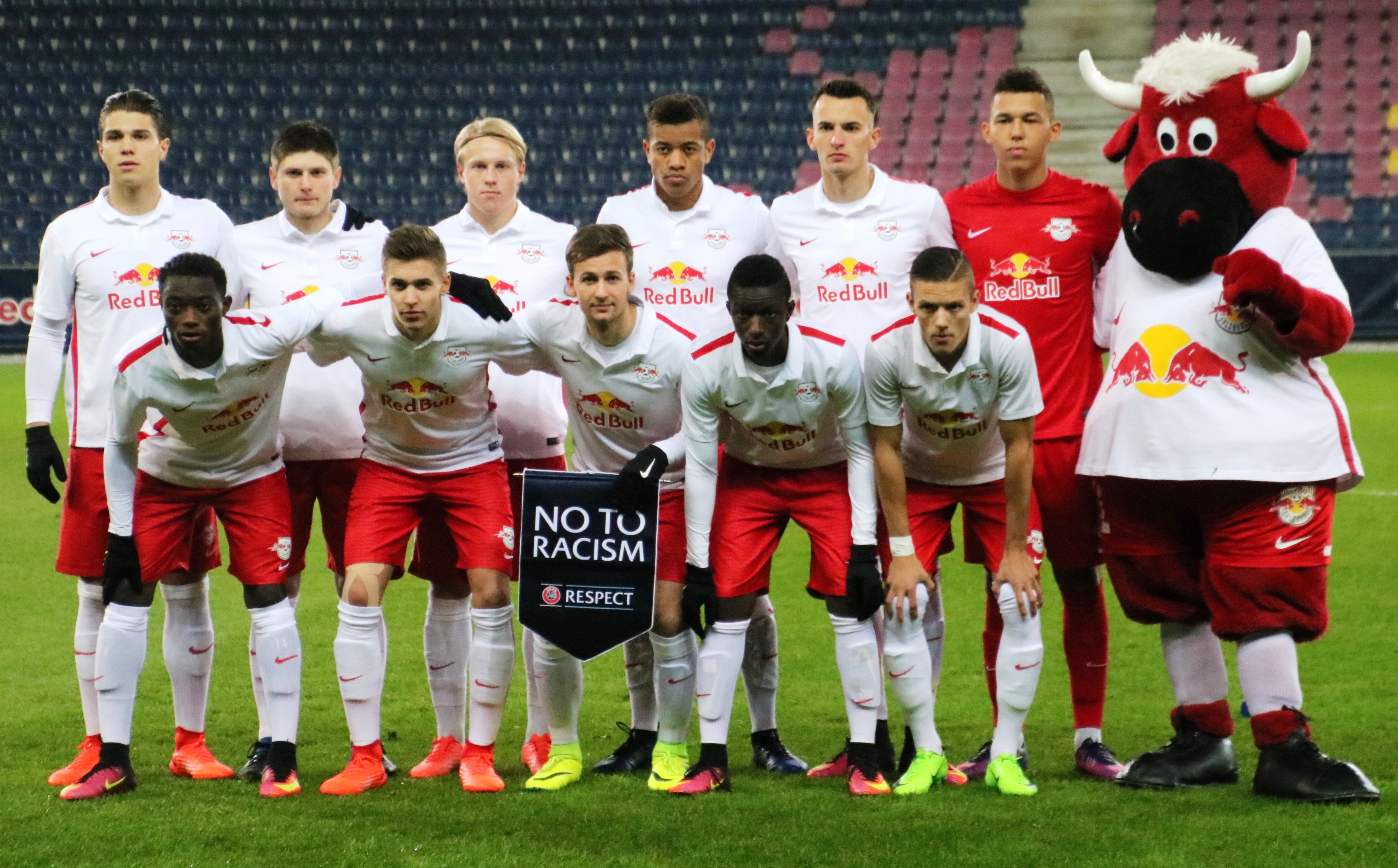 UEFA Youth League olay off match